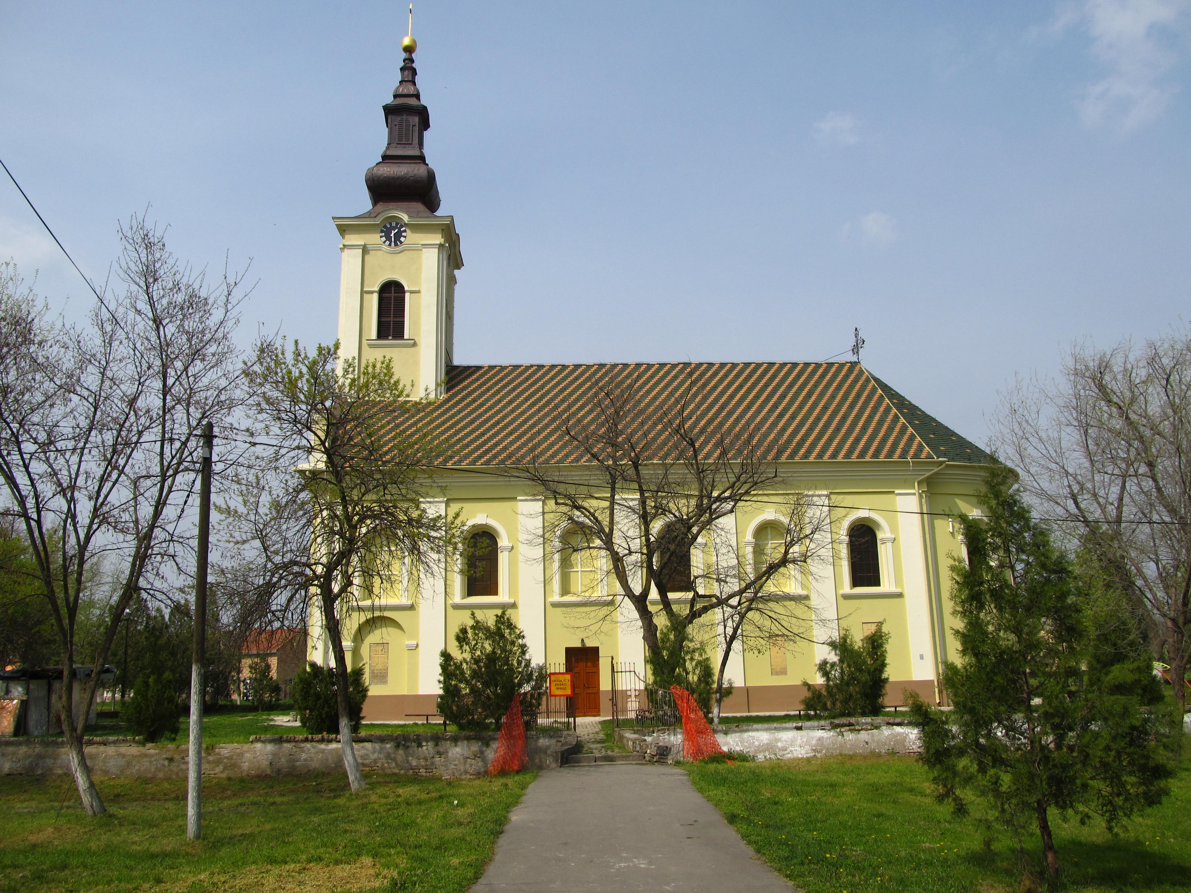 Serbian Orthodox church of Saint Sava and Saint Simeon in Srpski Itebej - southern facade